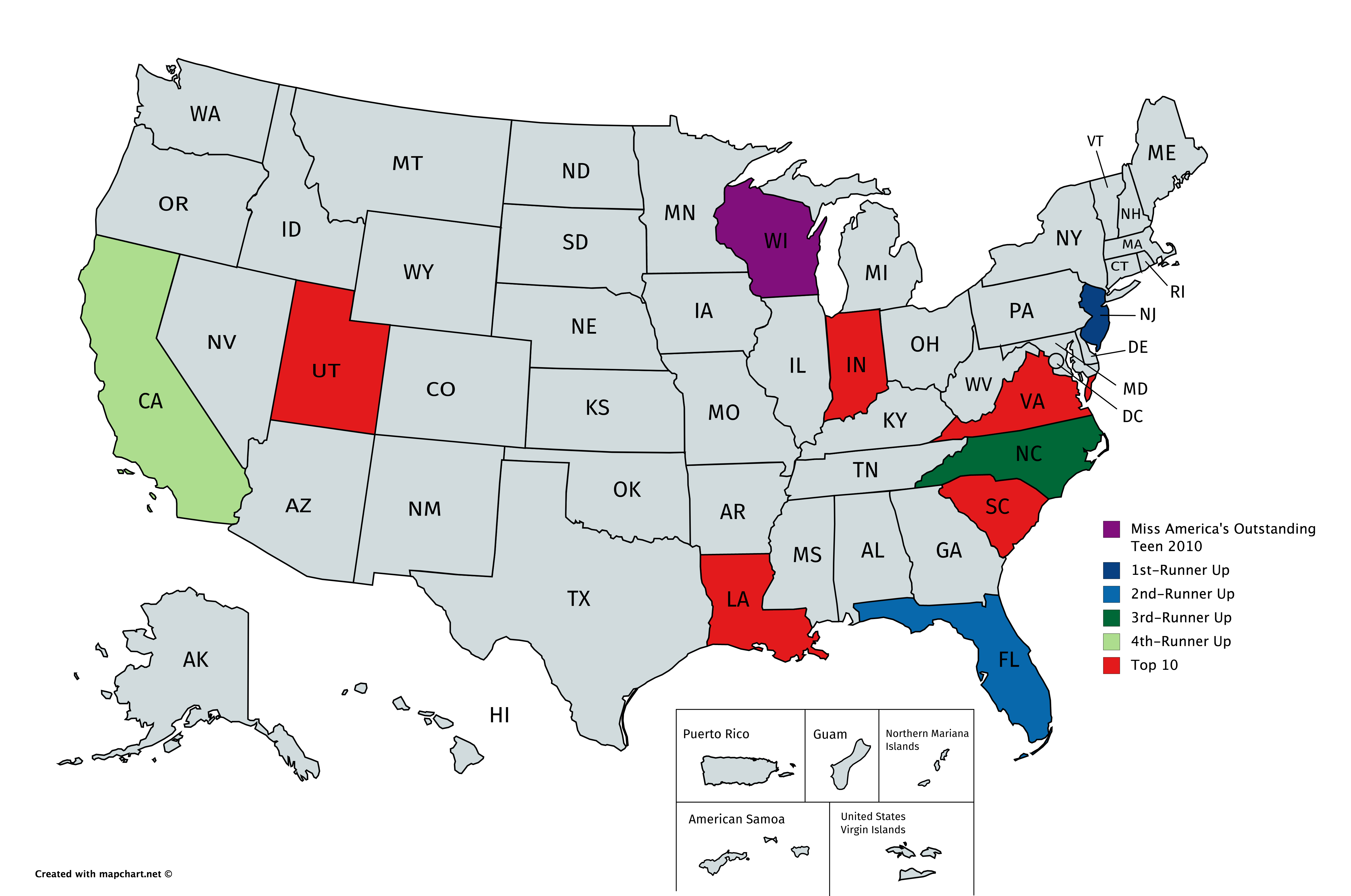 Placements of Miss America's Outstanding Teen 2010 on a map